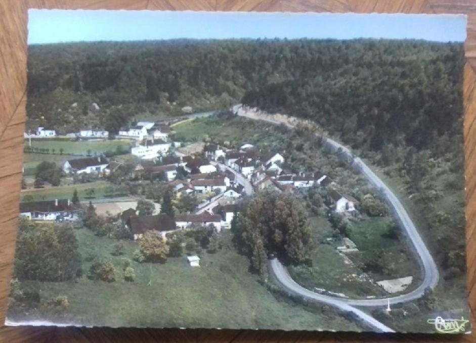 View of Fravaux (France, Aube)